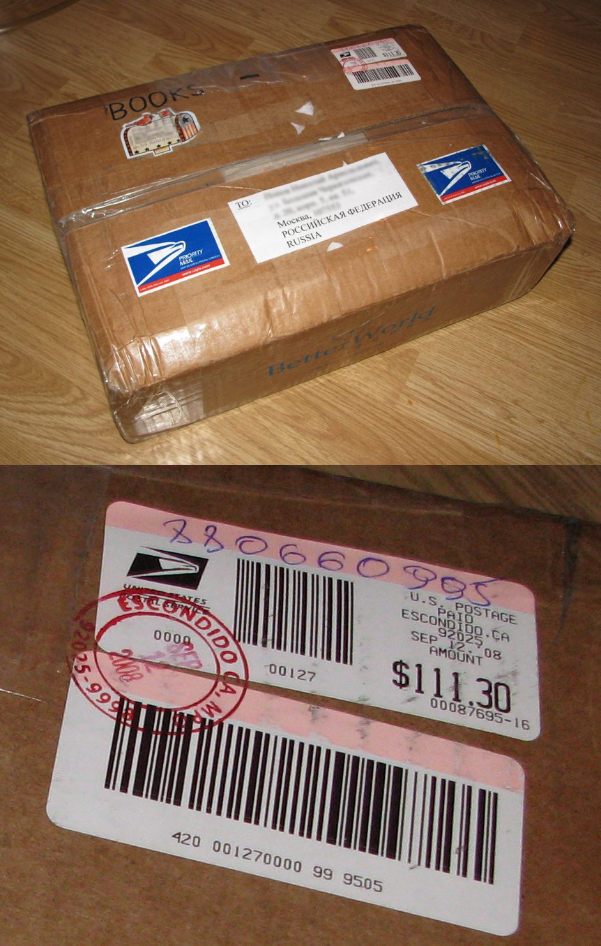 Parcel sended by priority mail from Escondido, CA, USA, to Moscow, Russia, 2008.